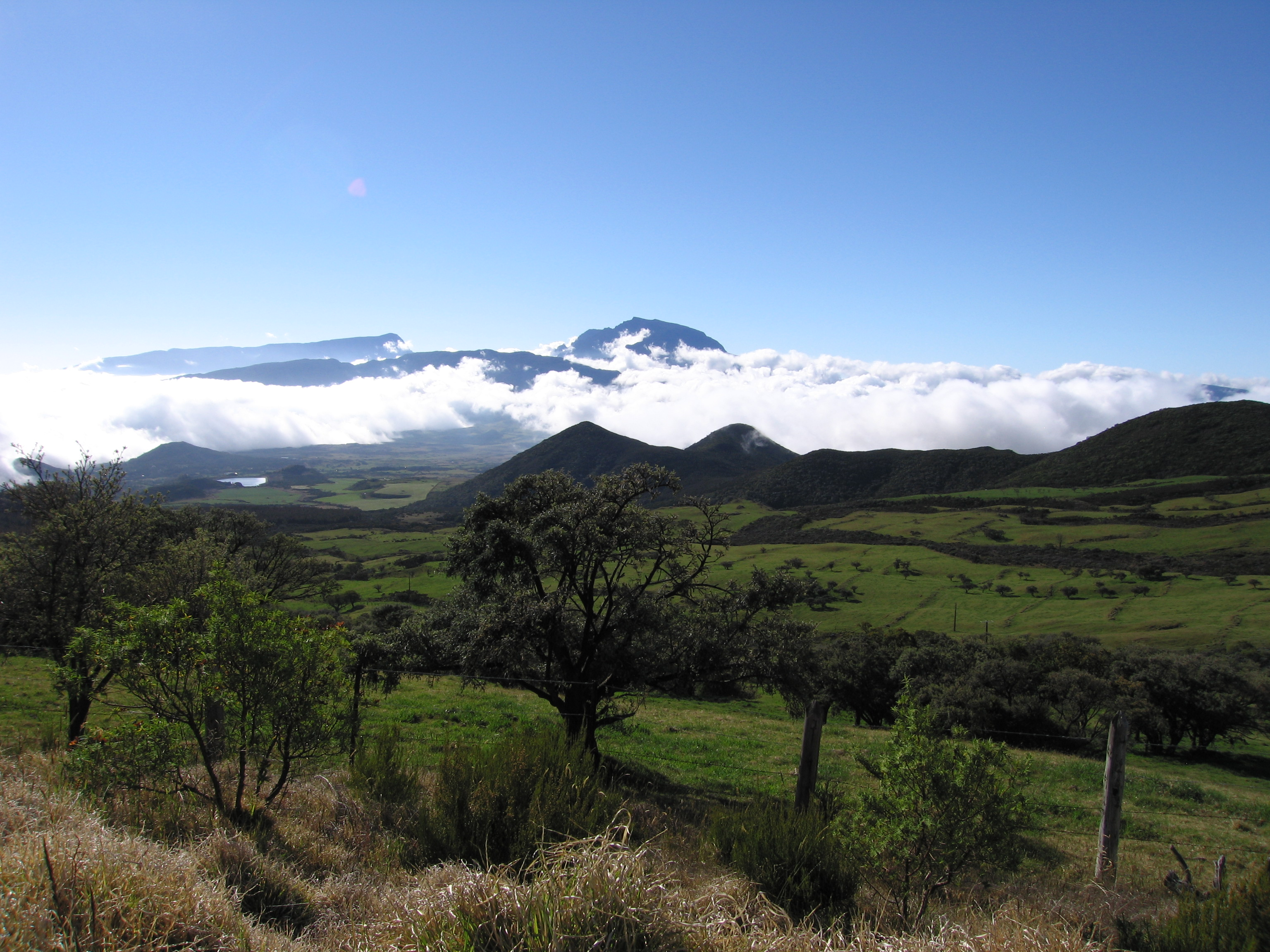 The Piton des Neiges, highest point of La Réunion, taken from the Plaine des Cafres.